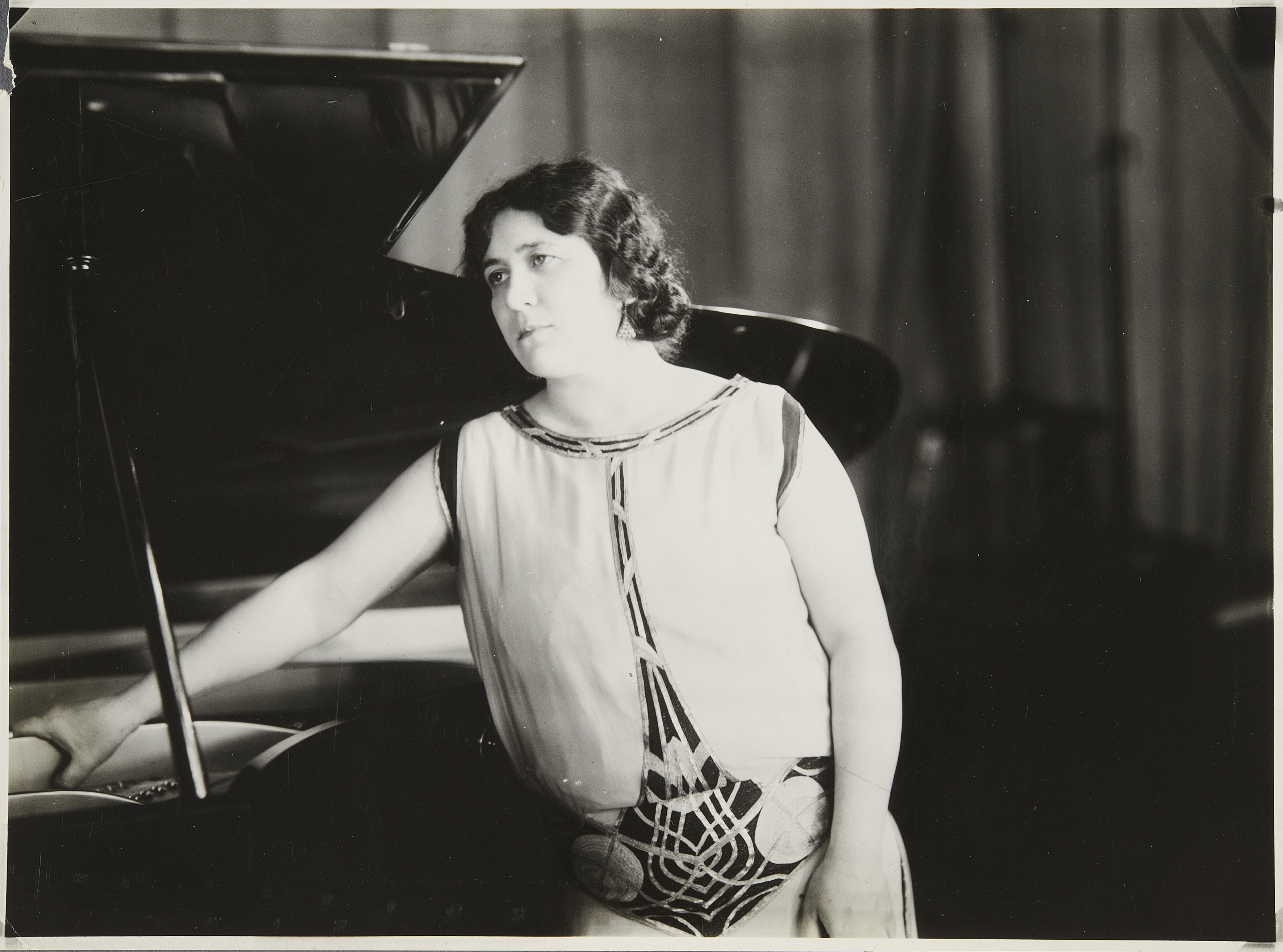 Photograph of the Finnish singer Oili Siikaniemi (1888–1932).